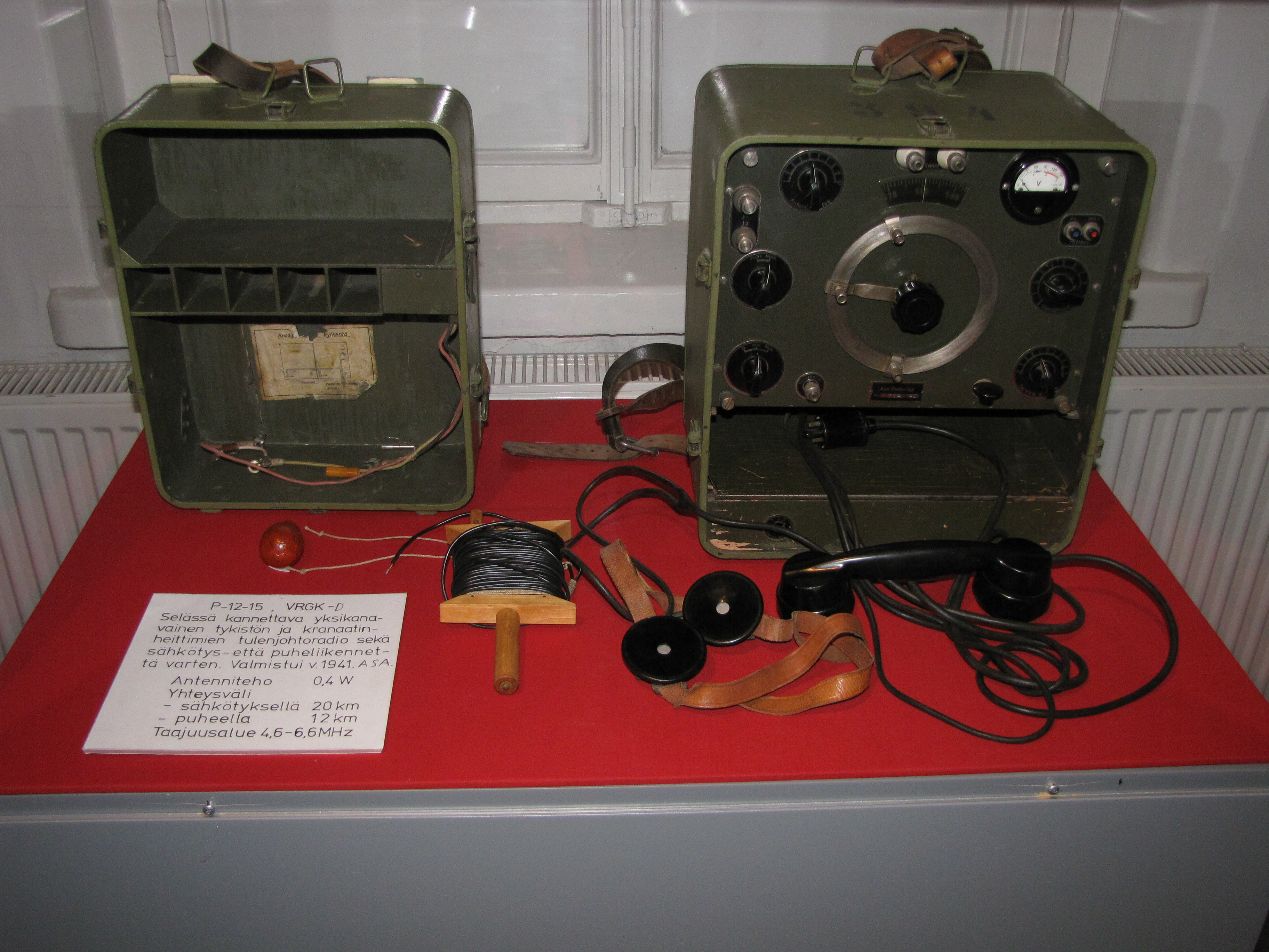 Finnish P-12-15 VRGK military radio. Artillery fire control (class D) radio, manufactured by ASA in 1941. Transmission power 0.4 W, frequency 4.6-6.6 MHz, wireless telegraph range 20 km, radiotelephony range 12 km. Photographed in Hämeenlinna artillery museum.